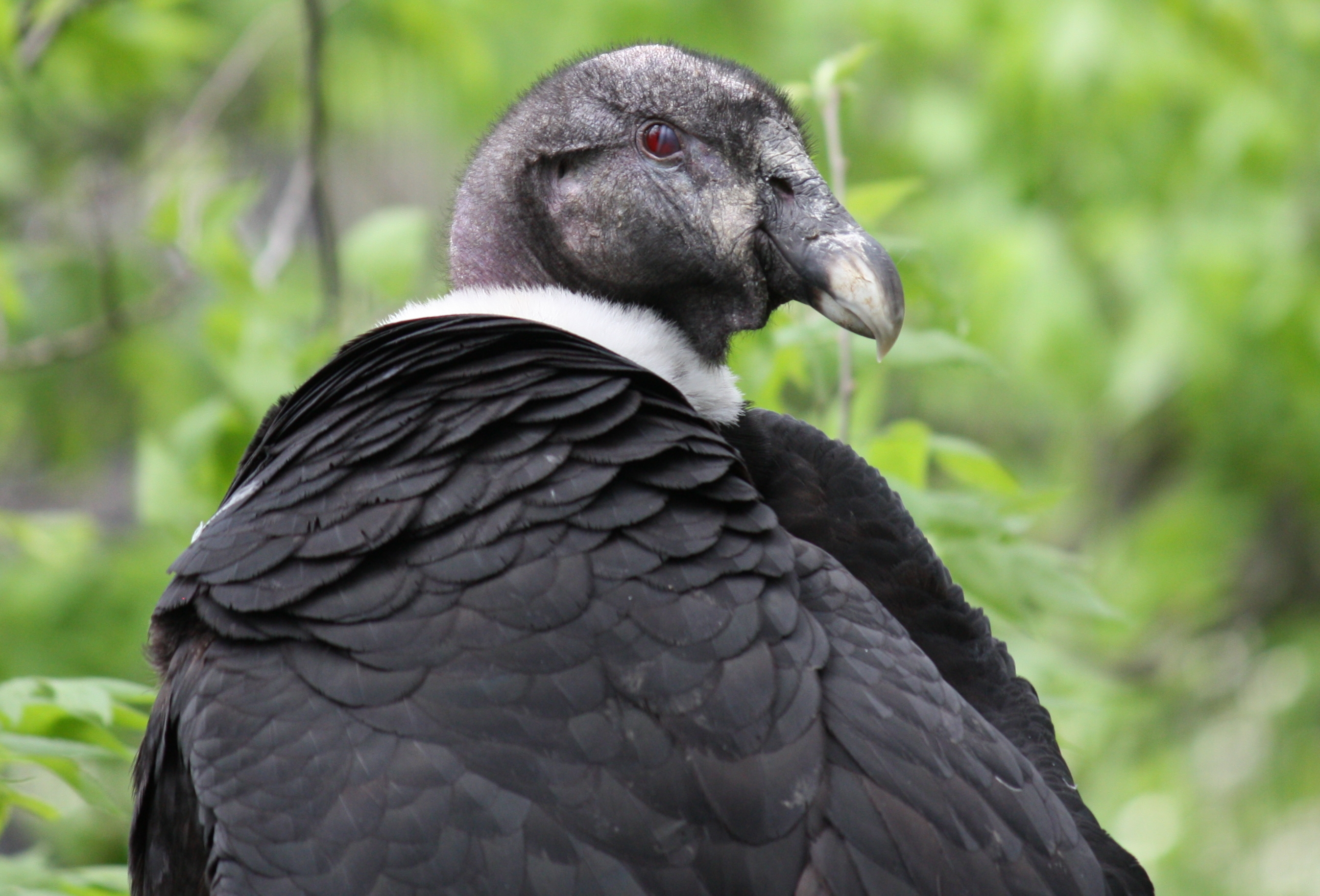 Andean Condor Vultur gryphus at Cincinnati Zoo